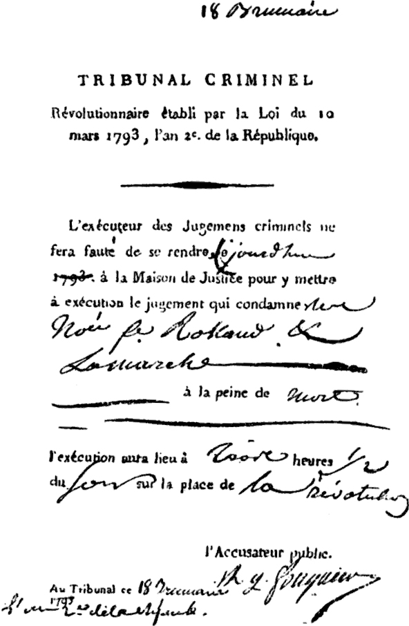 The Order of Execution of the Marie-Jeanne Roland de la Platiere Issued by the Revolutionary Tribunal and signed by Fouquier-Tinville.